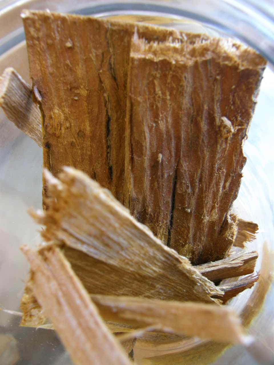 Phellodendron amurense Phellodendron amurense,キハダ,黄檗（オウバク）